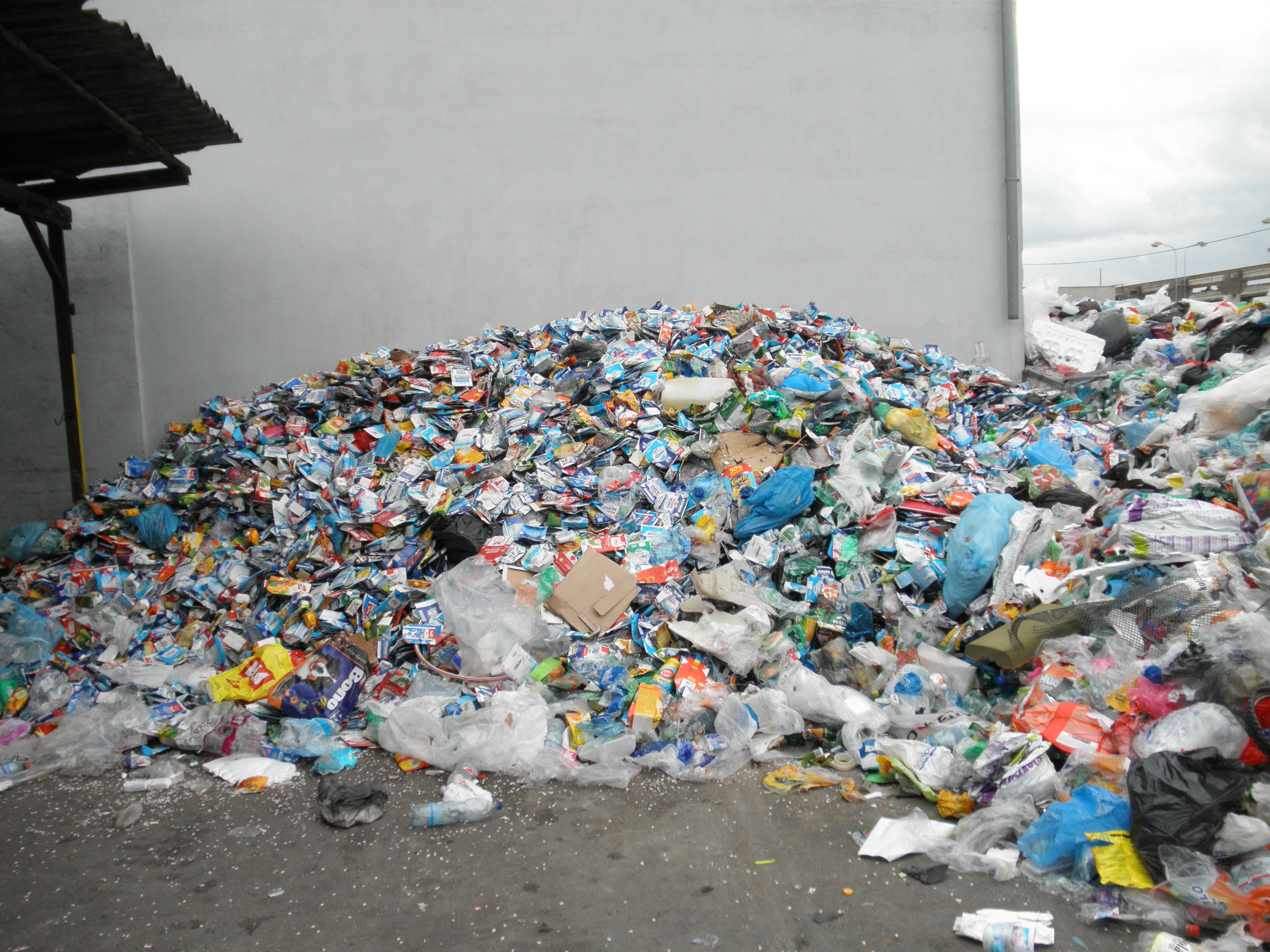 Drink cartons prepared for recycling. In Olomouc, the Czech Republic.